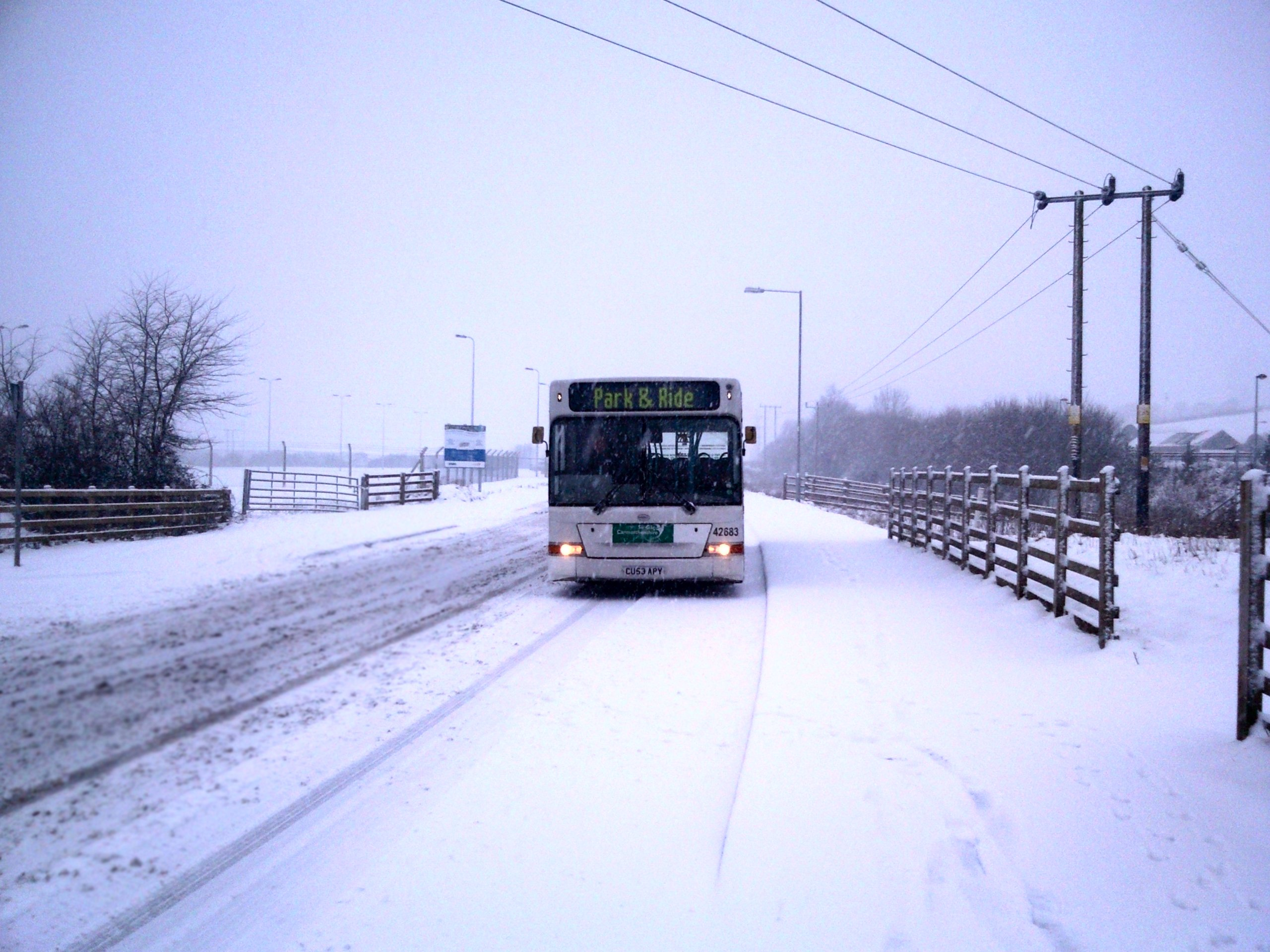 Park and Ride bus at Nantyci Carmarthen.